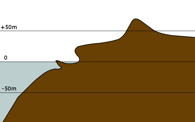 Niue island profil